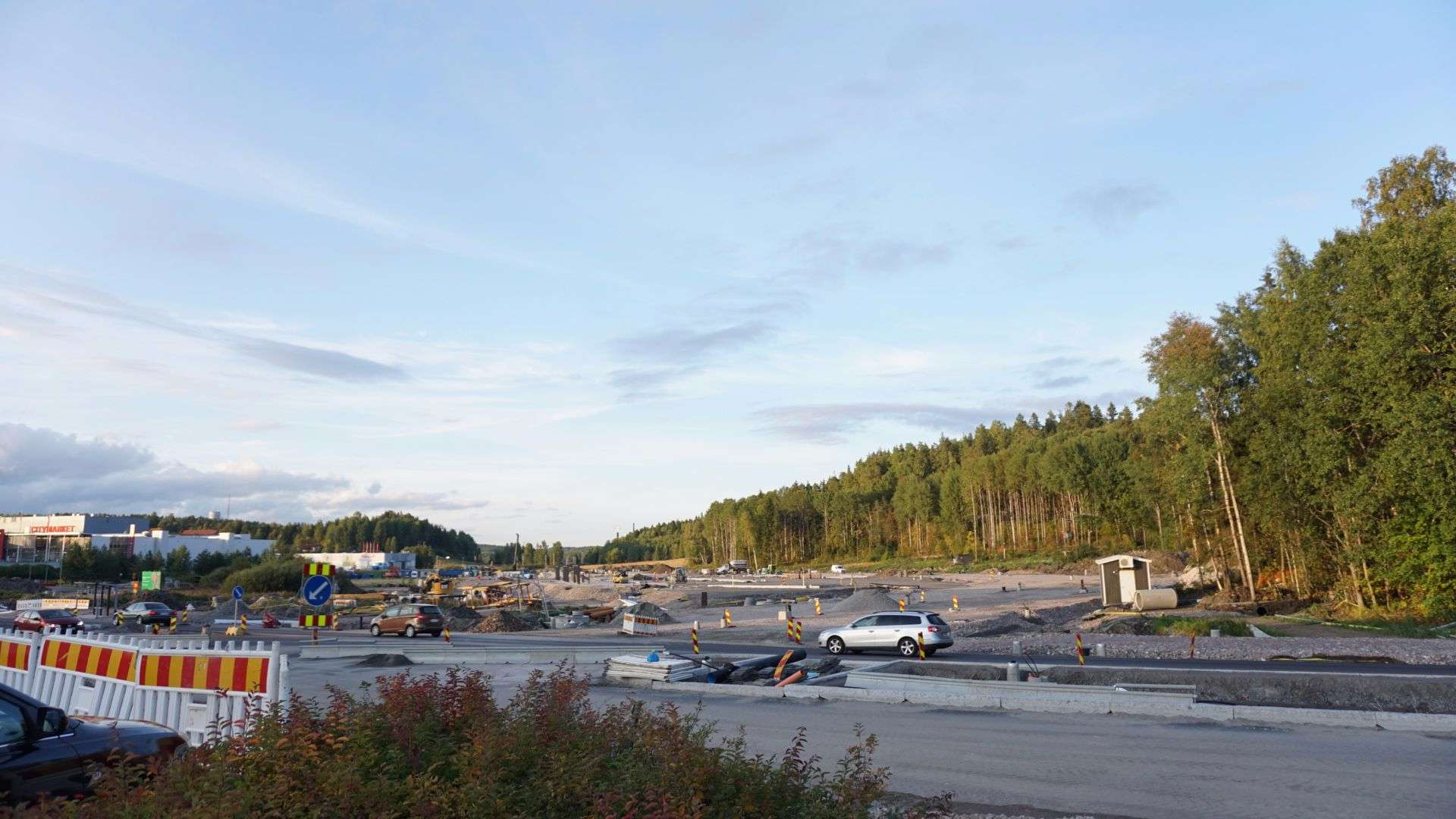 Viirinlaakso